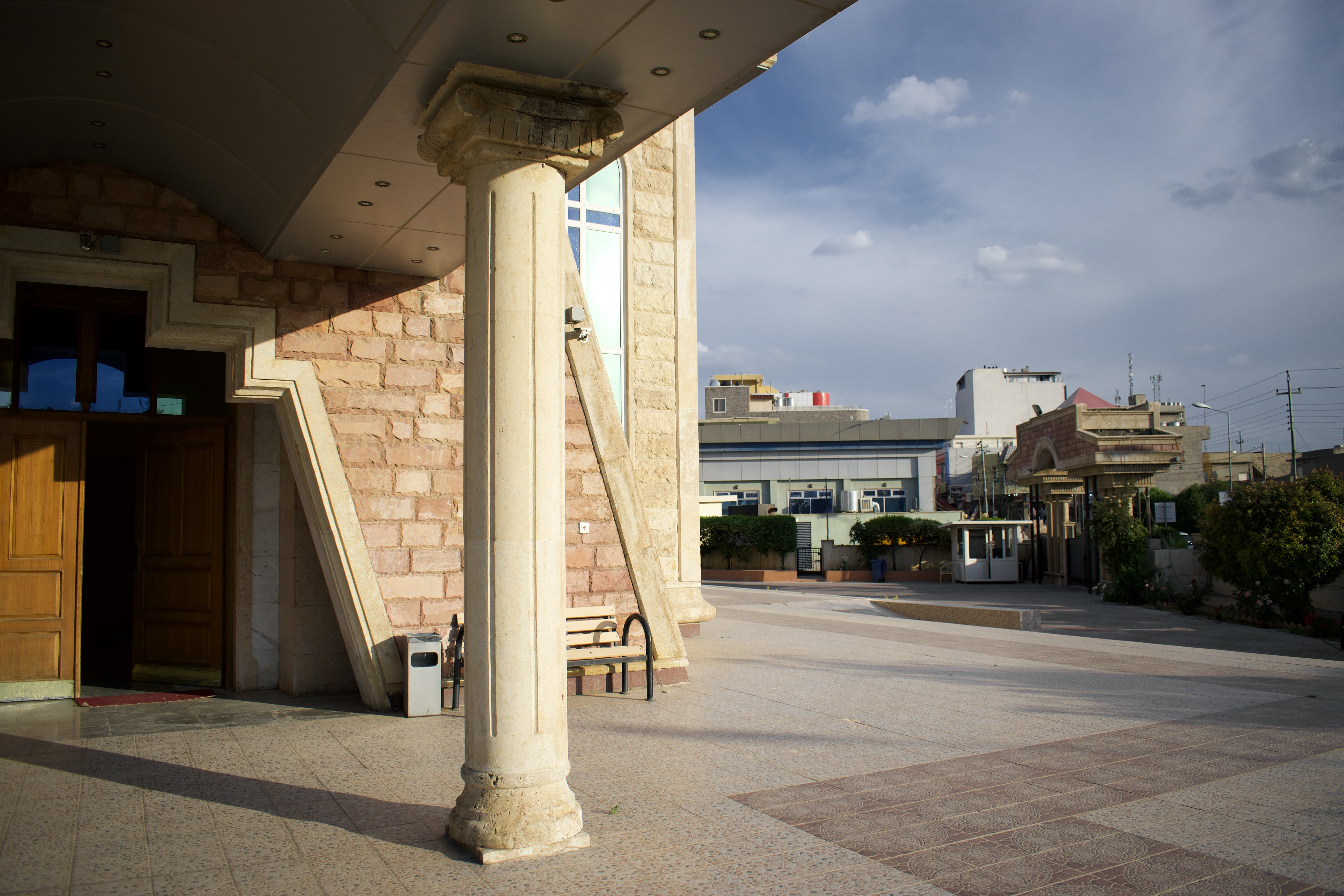 Cathedral of Saint John the Baptist for the Assyrian Church of the East in Ankawa